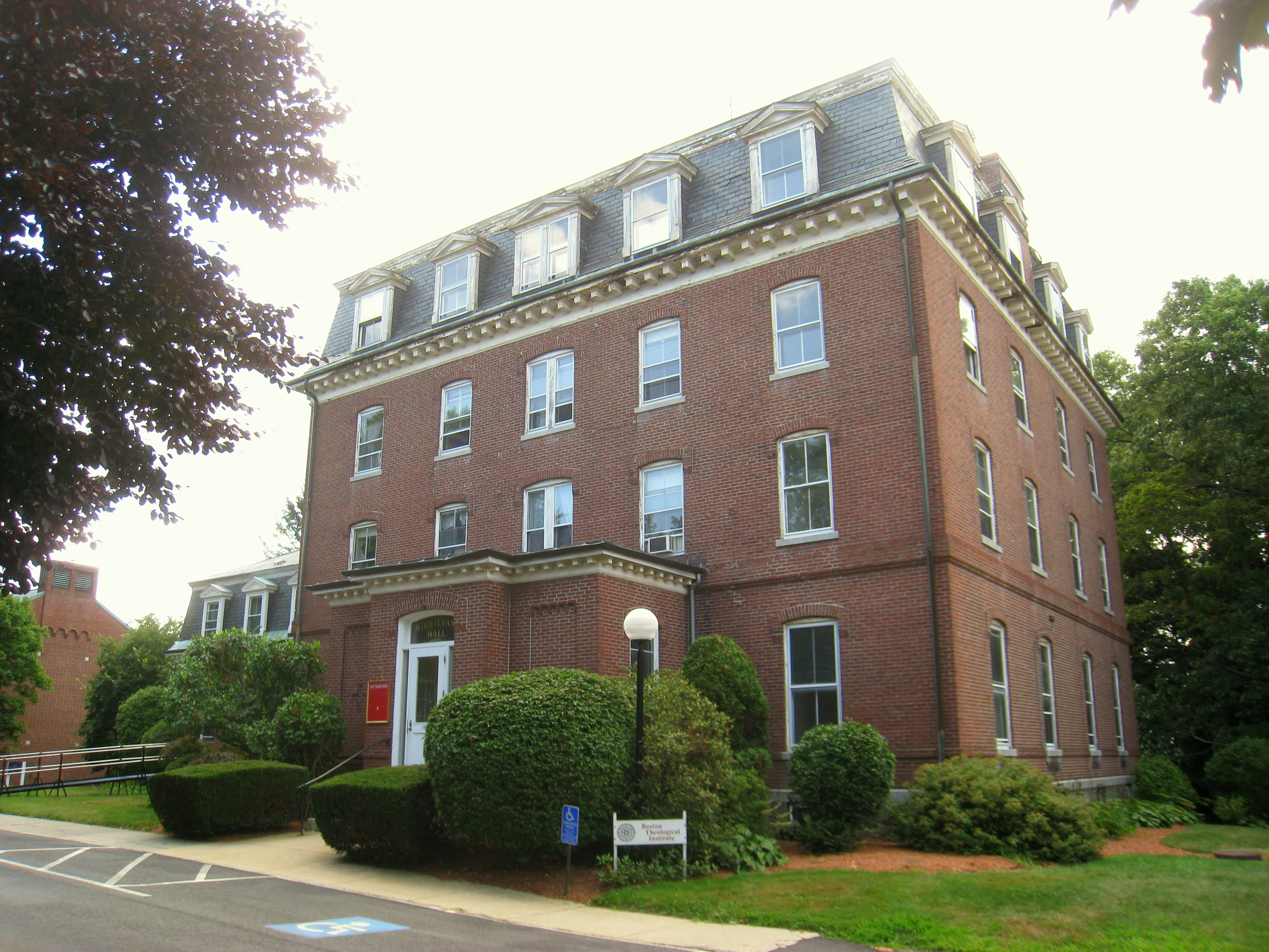 Boston Theological Institute, Sturtevant_Hall, Andover Newton Theological School, 210 Herrick Road, Newton Centre, Massachusetts, USA.